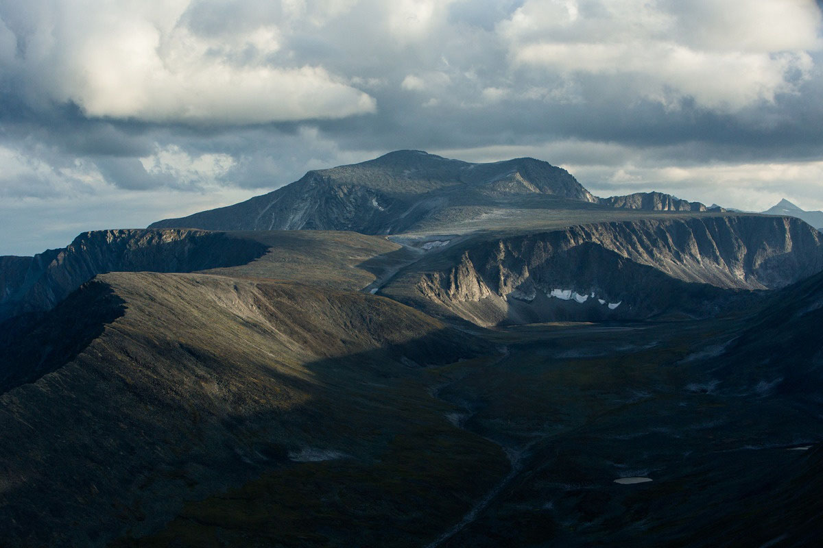 The highest peak the Ural Mountains, the mountain peoples